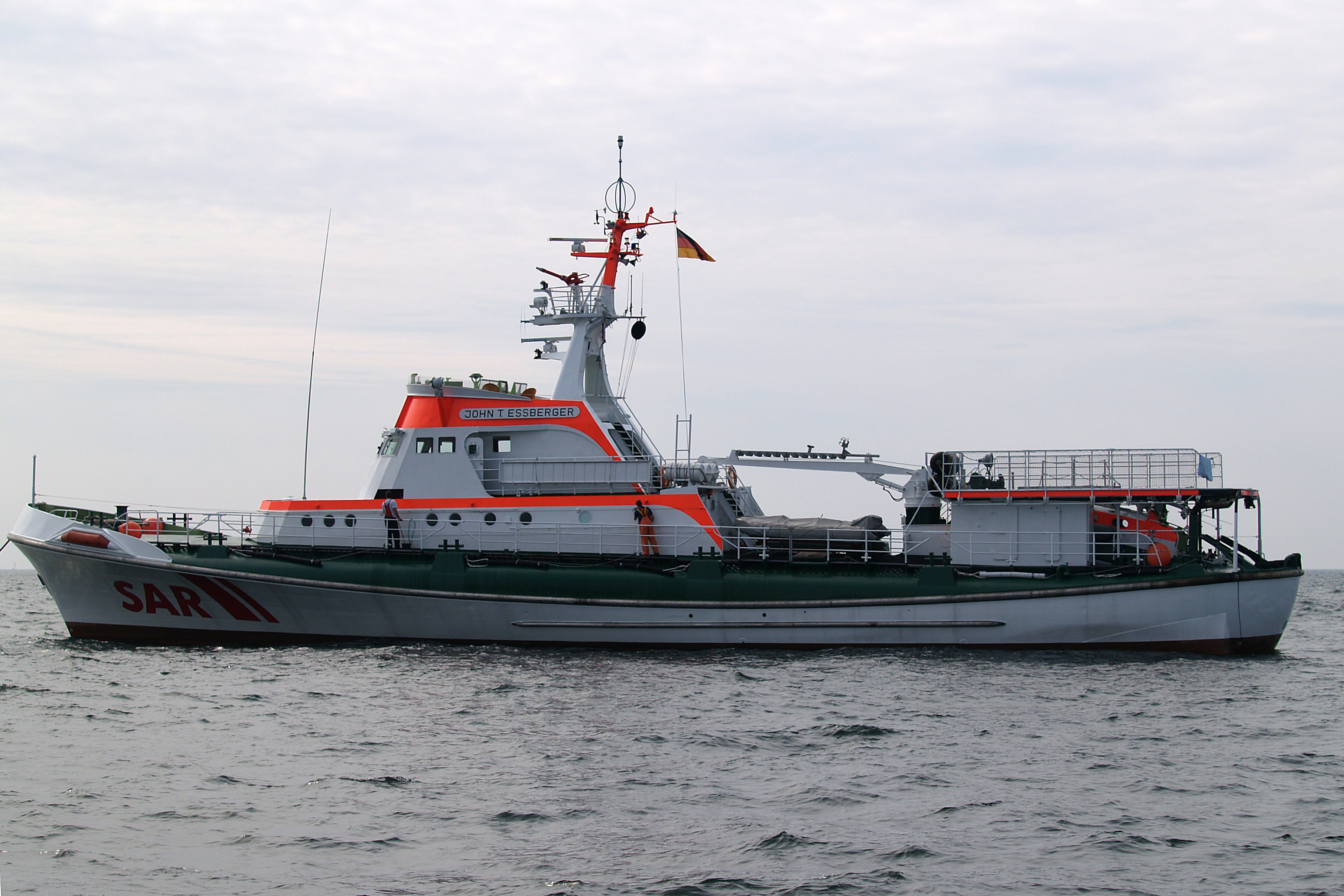 SAR-Ship John T. Essberger on station in the Baltic Sea near Fehmarn island